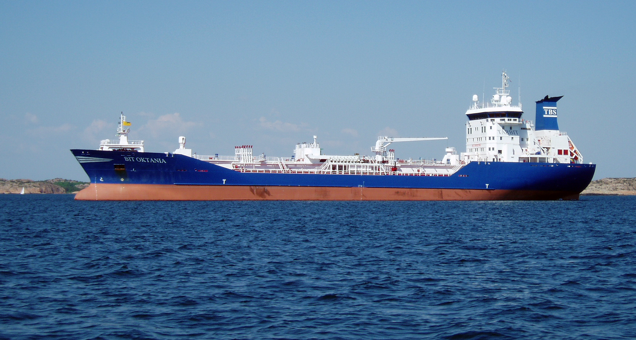 The Swedish product tanker M/T Bit Oktania, SBAC, IMO: 9284647, at Anchor off Brofjorden